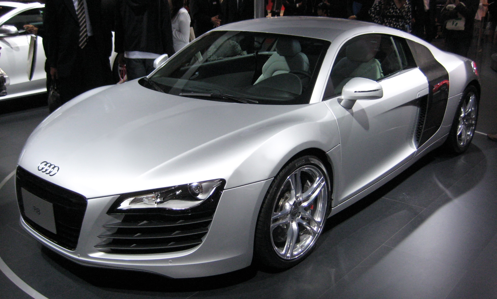 2007 Audi R8 photographed in Tokyo Motor Show 2007